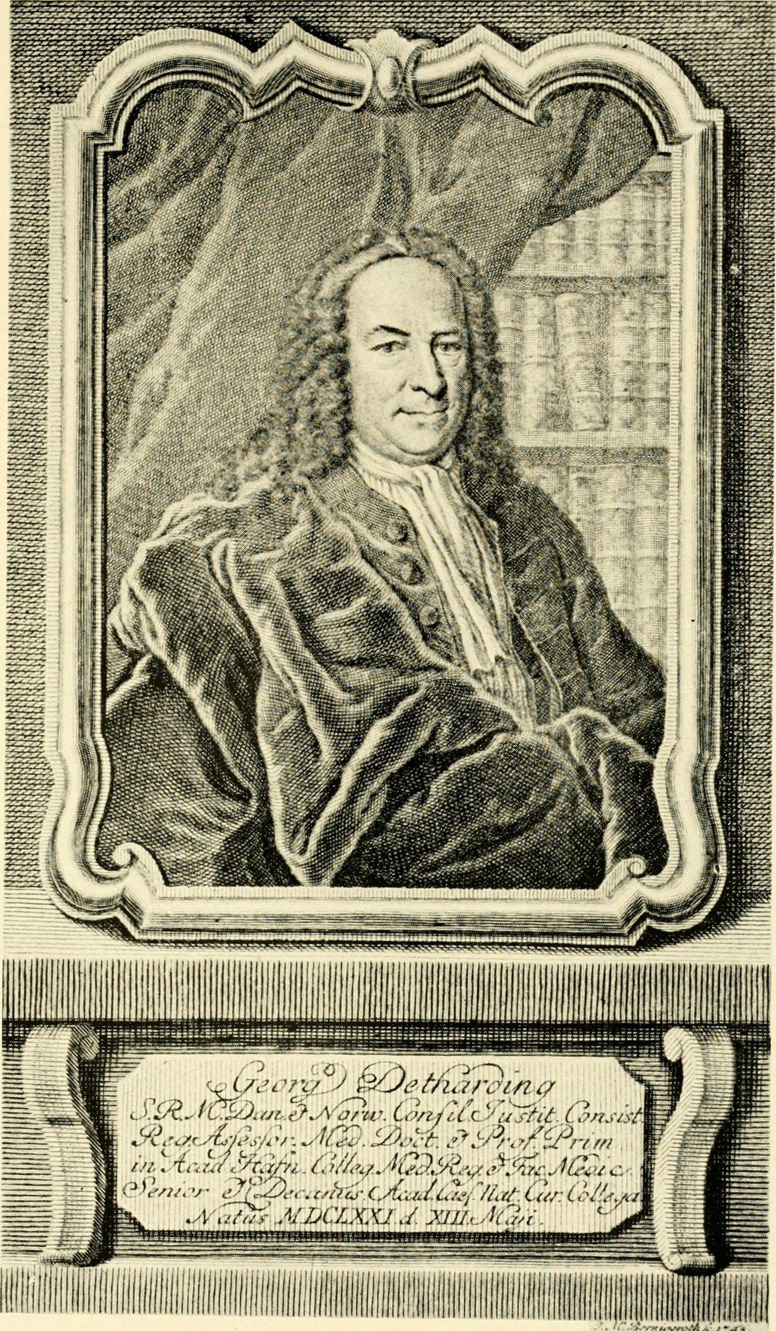 Georg Detharding Title: Anatomische Hefte Year: 1918 (1910s) Authors: Subjects: Publisher: München [etc. J. F. Bergmann] Text Appearing Before Image: Anatomische Hefte. L Abt. 165. Heft (55. Bd., H. 1). Tafel 12. Text Appearing After Image: Fig. l.j. Georg Detharding, 1671—1717. Herzoglicher Professor der Medizin und höheren Mathematik an der Univer- sität Rostock, hielt zu Rostock anatomische Vorlesungen 1697—1733. Das Originalgemälde, nach dem obiges Bild gestochen wurde, hängt im Vorzimmer des Konzils. Verlag von J. F. Bergmann in Wiesbaden.